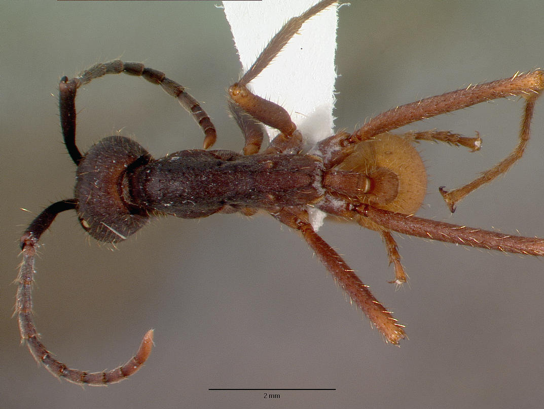 Dorsal view of ant Eciton burchellii specimen casent0009219.